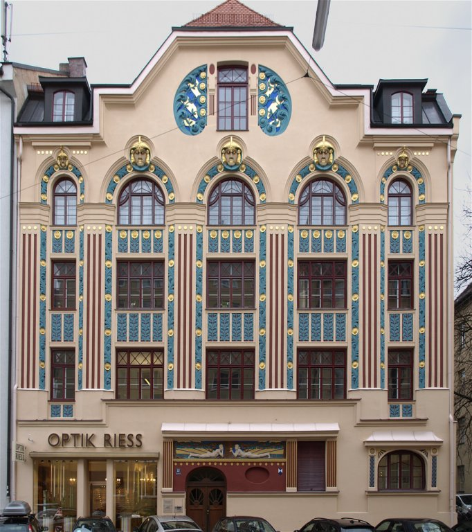 Munich (Germany), Ainmillerstr. 22 , photo 2008